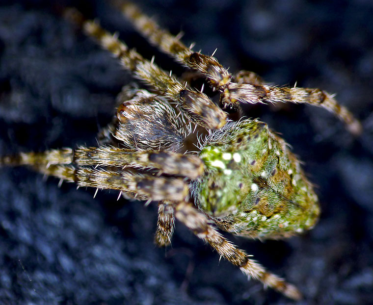 Araneus eburnus Hi Volker, yes, my first thought was Novakiella, then no spine, so I thought A. arenaceus but not peaked enough. Then I thought a peaked A. eburnus, and now that you say it yes the eburnus abdomen is much longer and barrel shaped, although some have the white figure on the front of the abdomen. I have kept this one for you, and I will keep the hi-res 4000x3000px photos for you too.